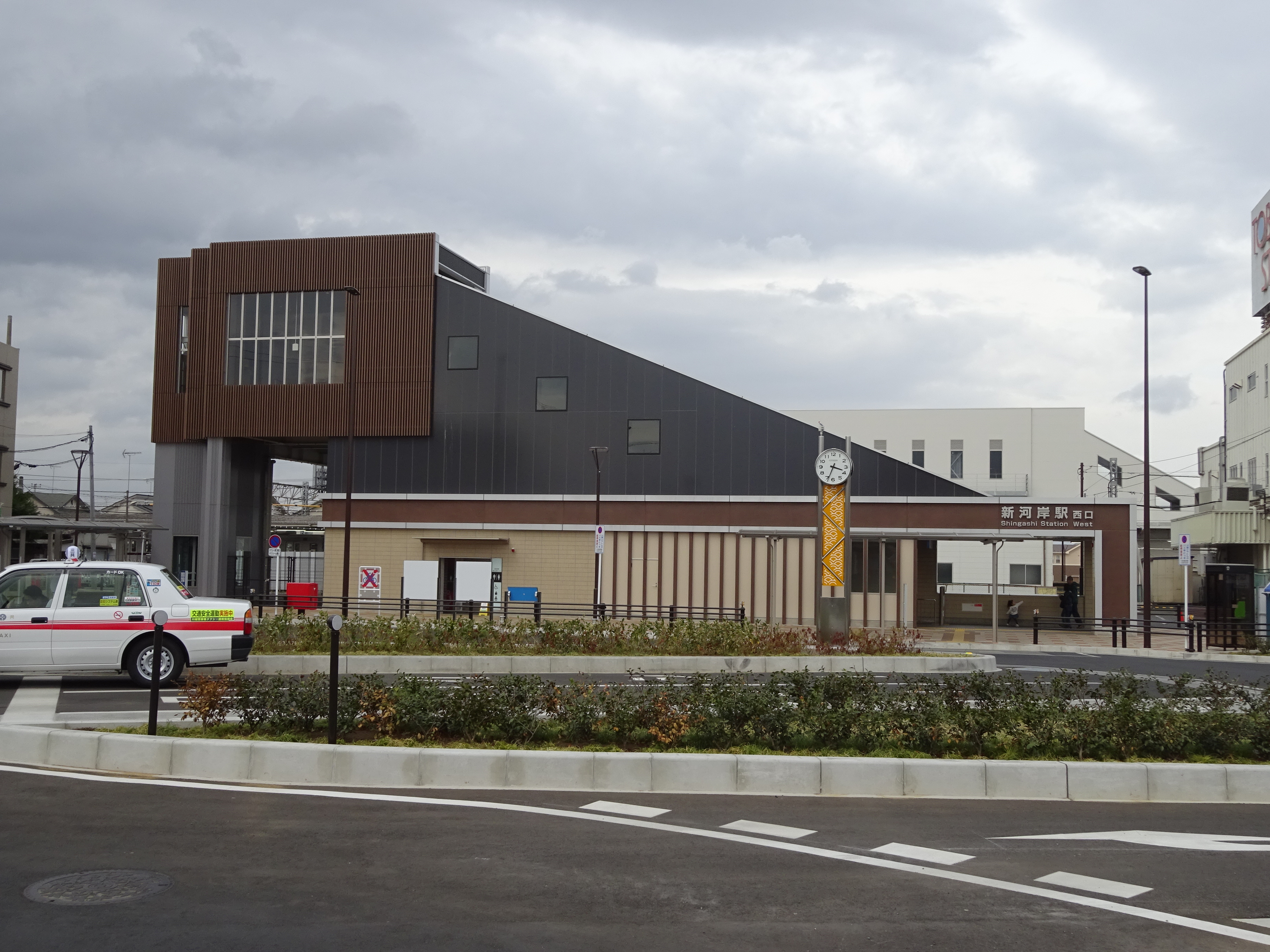 West entrance of Shingashi Station